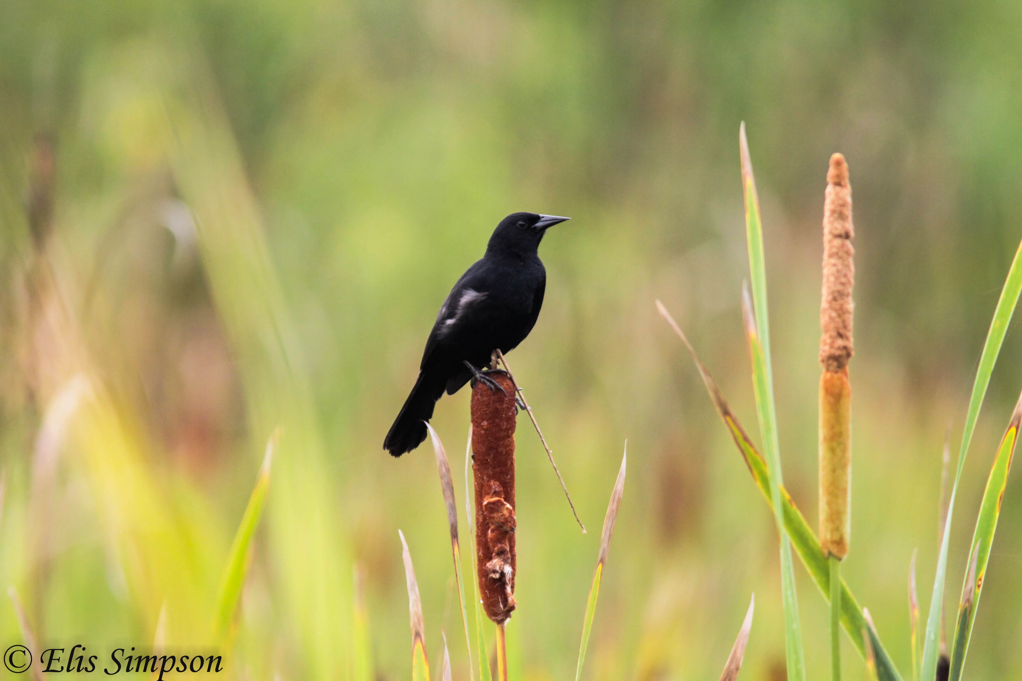 Unicoloured Blackbird